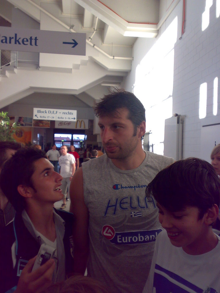 Theodoros Papaloukas, Greek basketballplayer